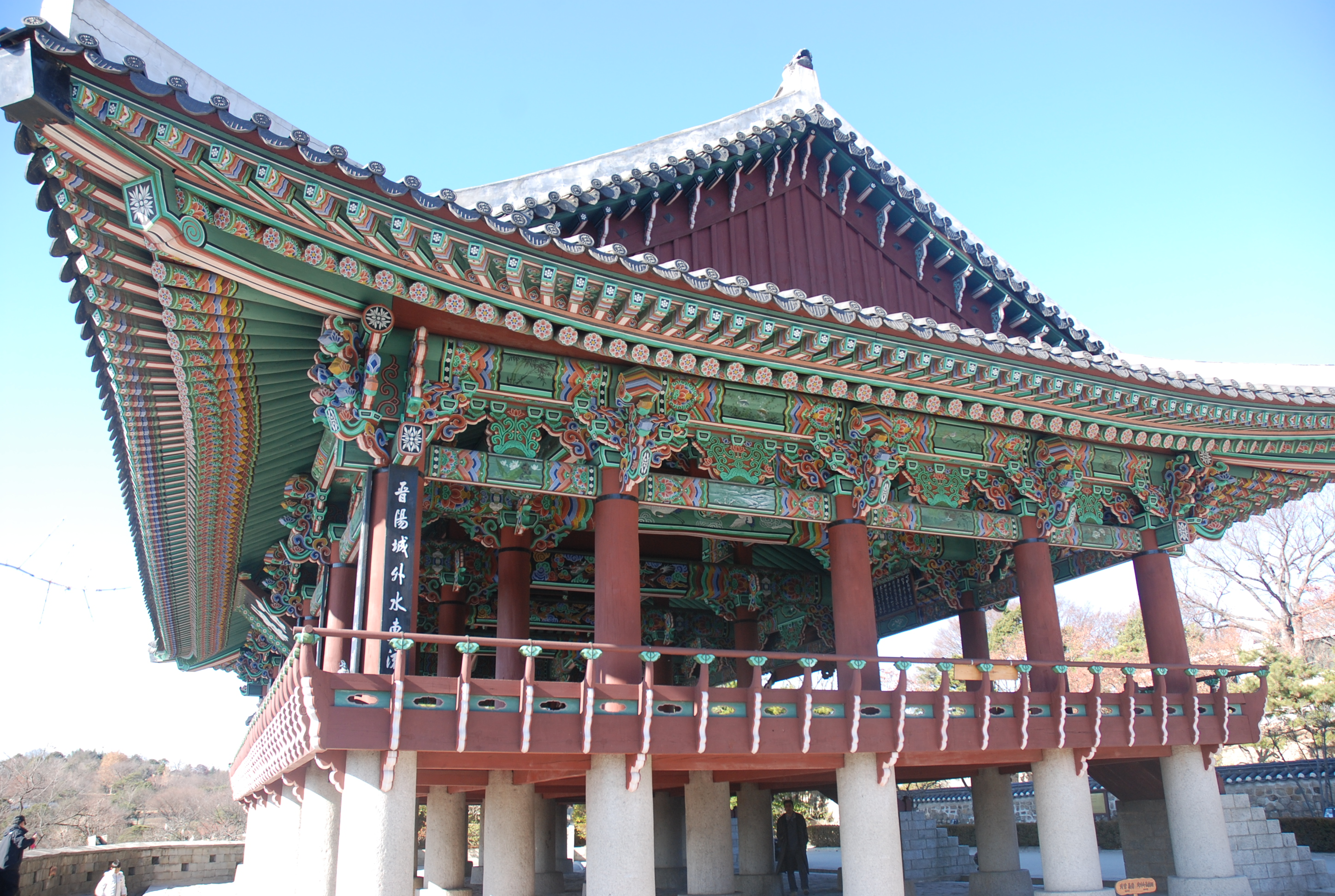 Choksuk Pavillion, The South headquarters in Jinju Caslte